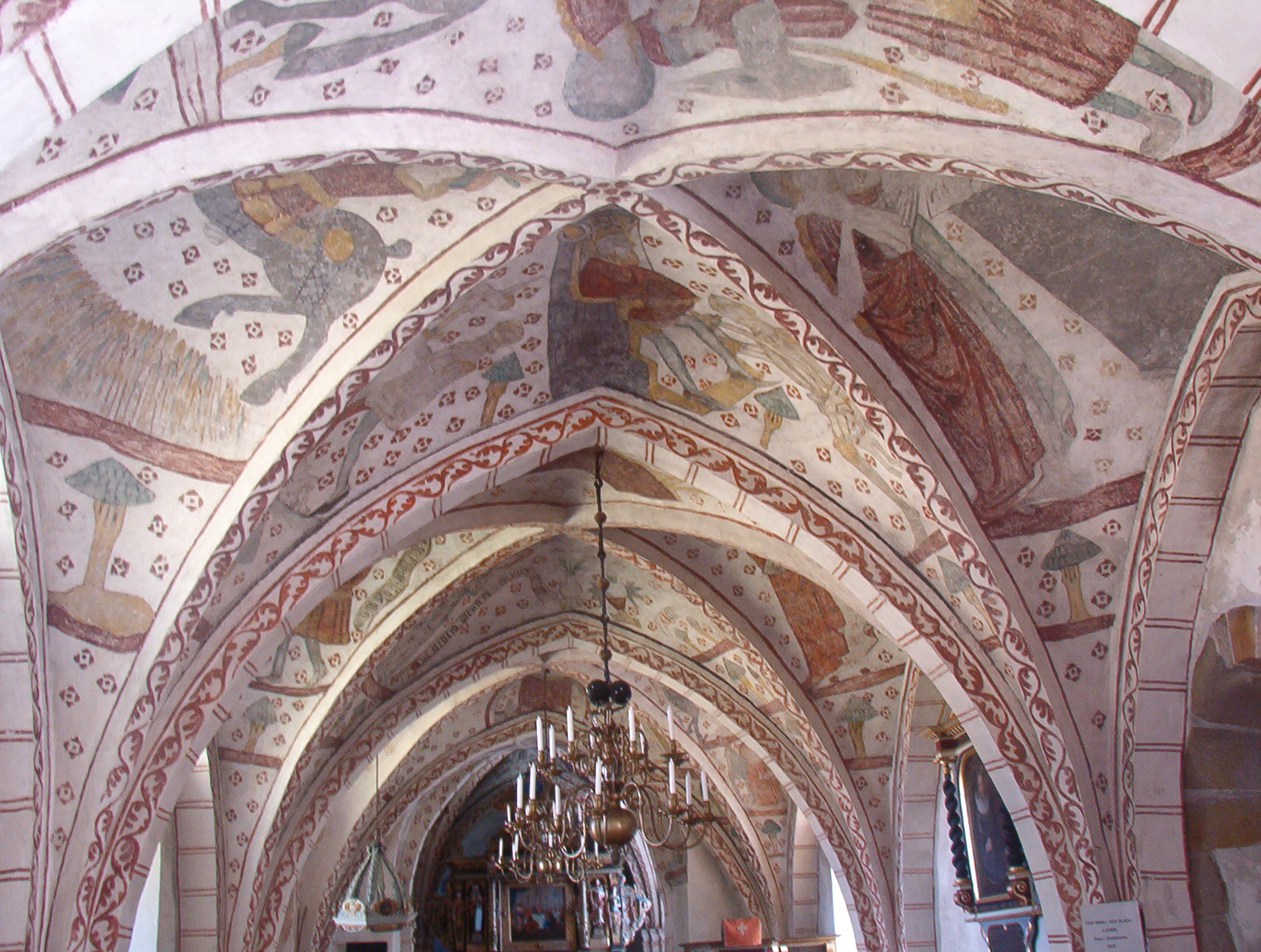 The ceiling paintings from the 16th century.